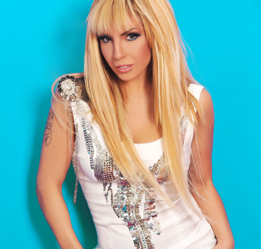 Photo of Zeynep Dizdar, Turkish singer.